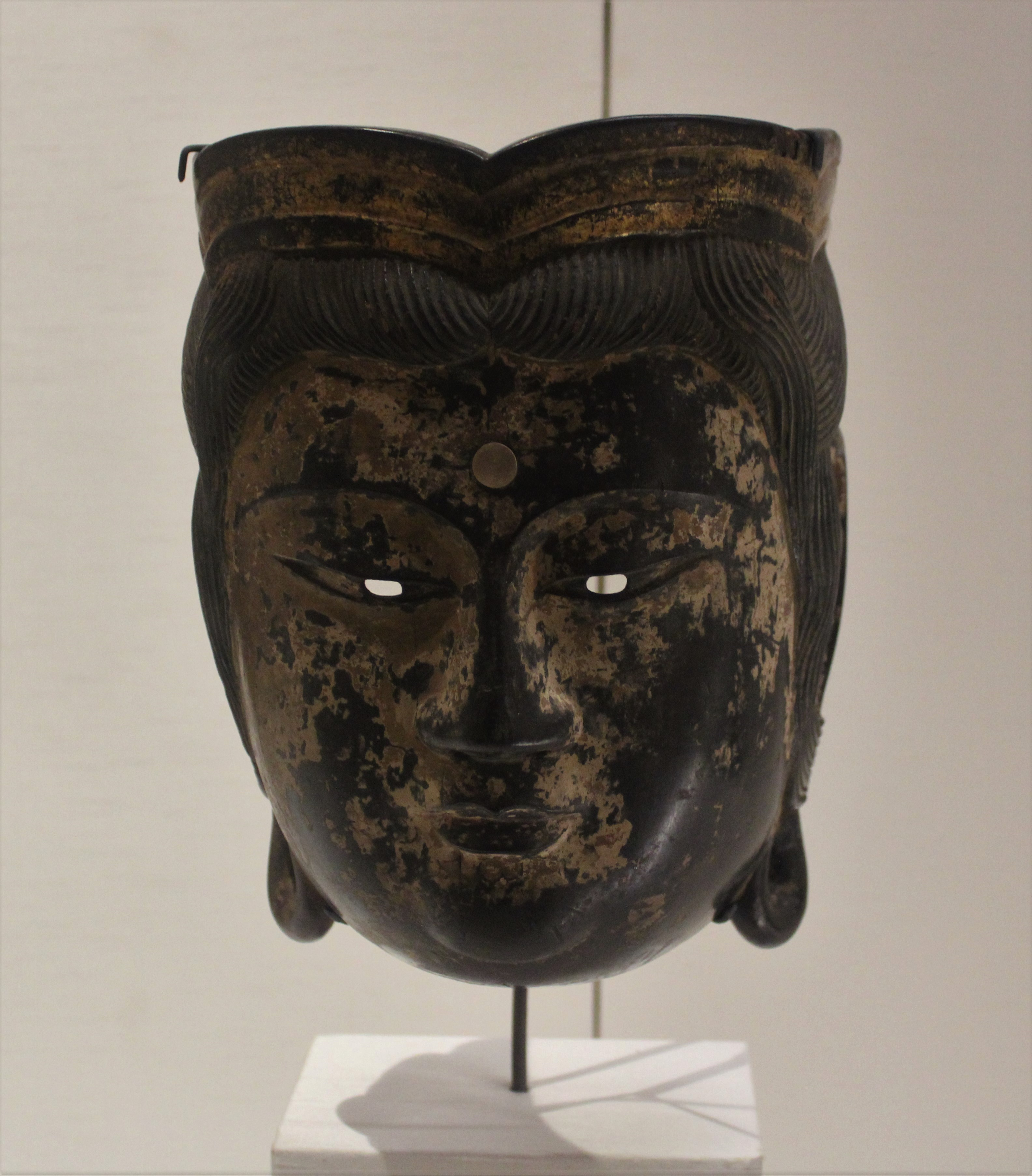 Mask. Bodhisattva's head. Made of black lacquered, gilt and painted wood; also glass. About 1200-1300, Kamakura period. 1945,1017.401. Probably used worn during nerikuyo processions of the Pure Land sects, enacting Amitabha Buddha's arrival to his Paradise.